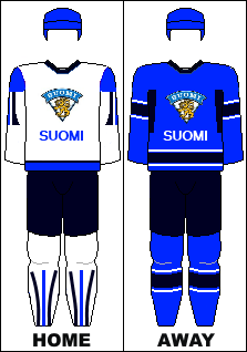 The jerseys of Finland's national ice hockey team.